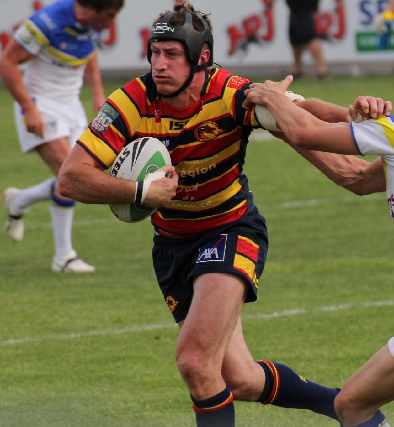 Australian rugby league player, Steve Menzies.